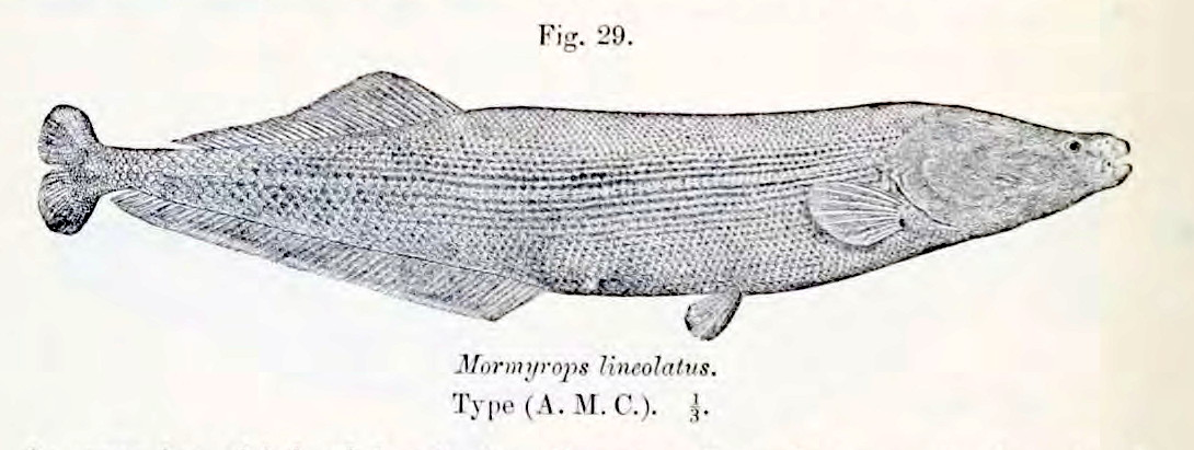 Mormyrops lineolatus Boulenger, 1898